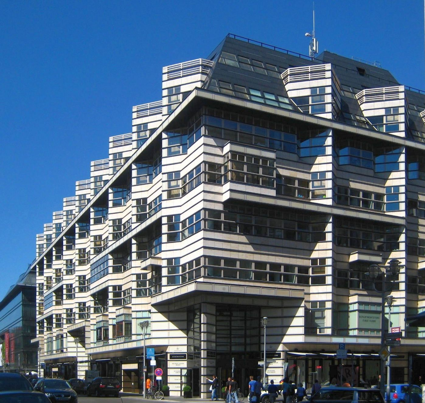 The Quartier 206 at Friedrichstraße No. 71-74 in Berlin-Mitte. The building was constructed from 1992 to 1995 by the architects Pei, Cobb, Freed & Partner (New York).